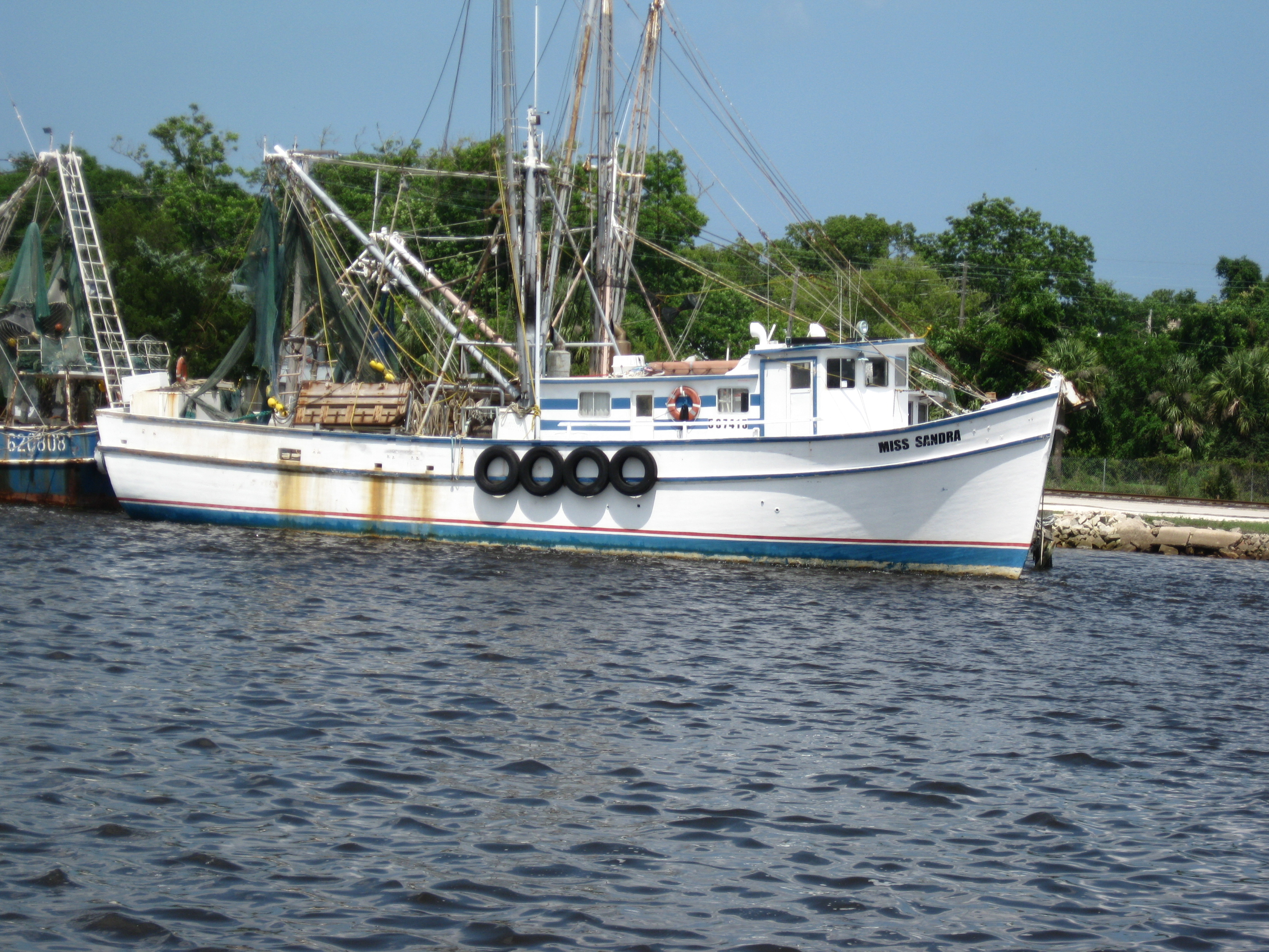 A small shrimp boat docked on the fishing port, in Amelia Island, Florida, United States.